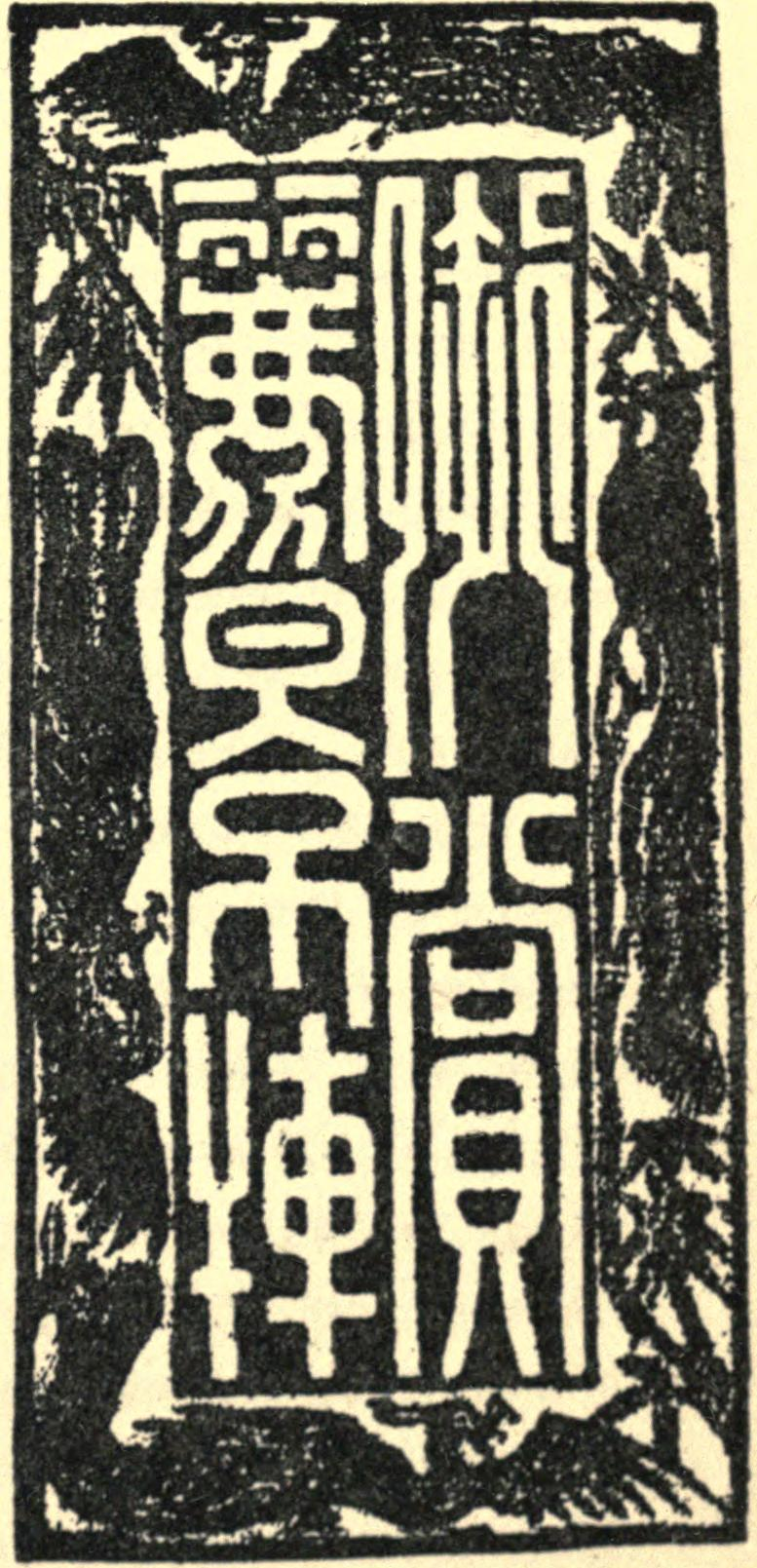 An impression of a seal used by Empress Dowager Cixi for sealing paintings executed by her own hand.